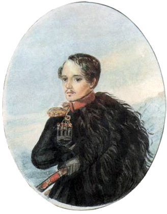 Mikhail Lermontov's autoportrait